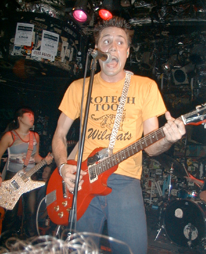 Jeannie Lee and Adam Rabuck of New Jersey power pop/pop-punk band Dirt Bike Annie.